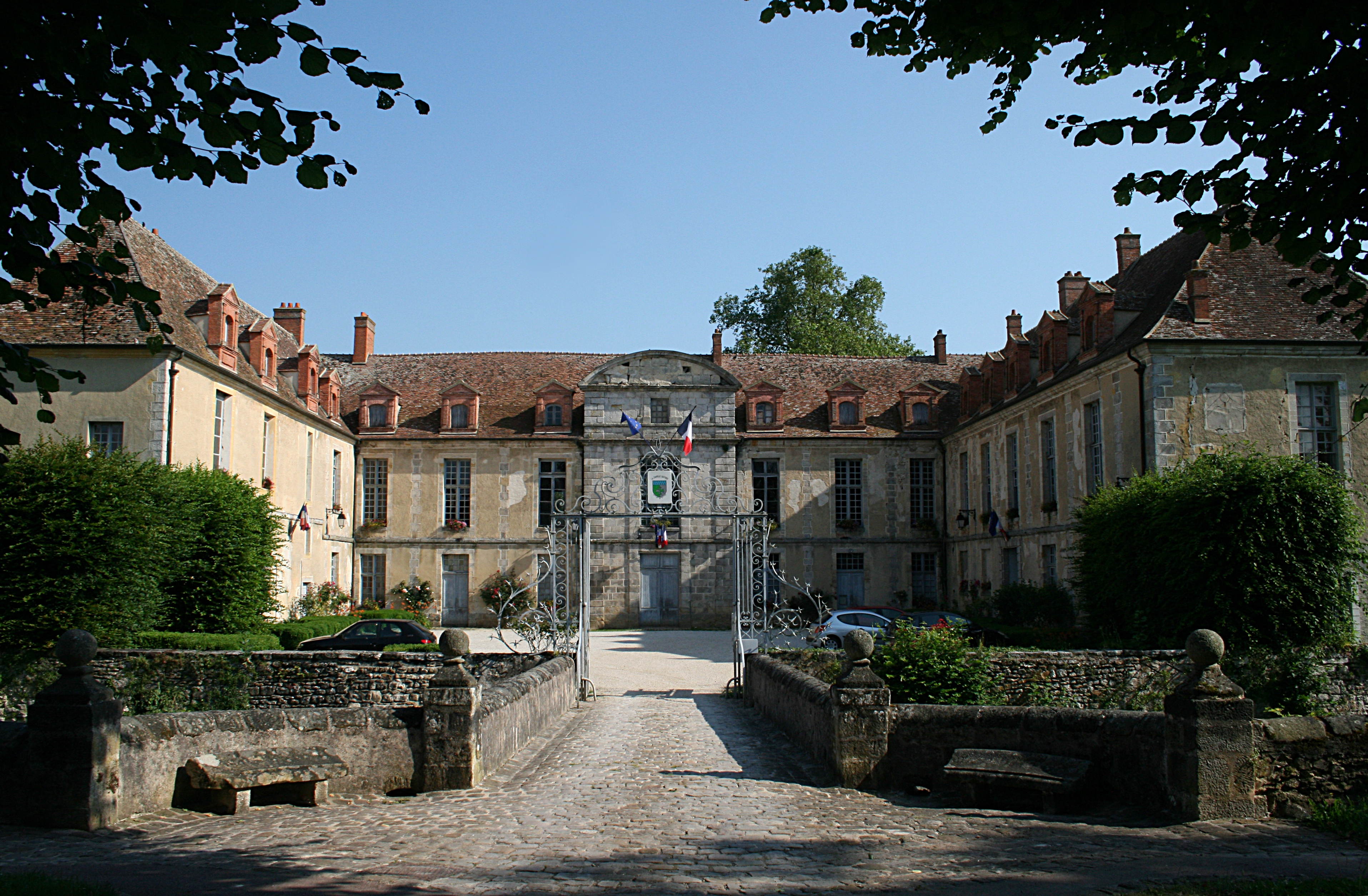 La Chapelle-Gauthier ( Seine-et-Marne]), the former castle (12th century, 1st half 17th century, 18th century) housing the town hall services and the municipal library.